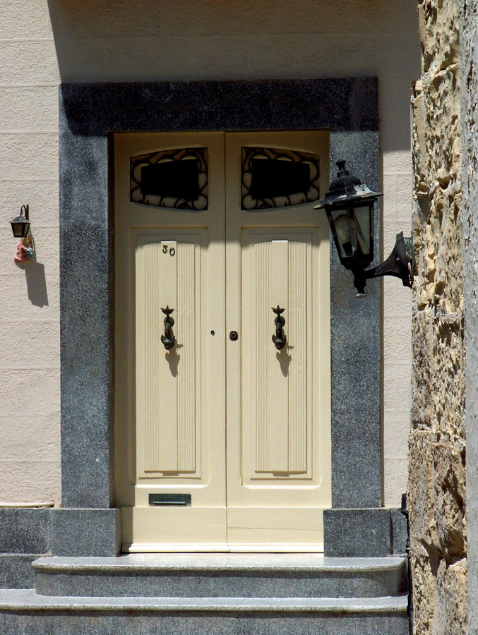 A typical Attard house